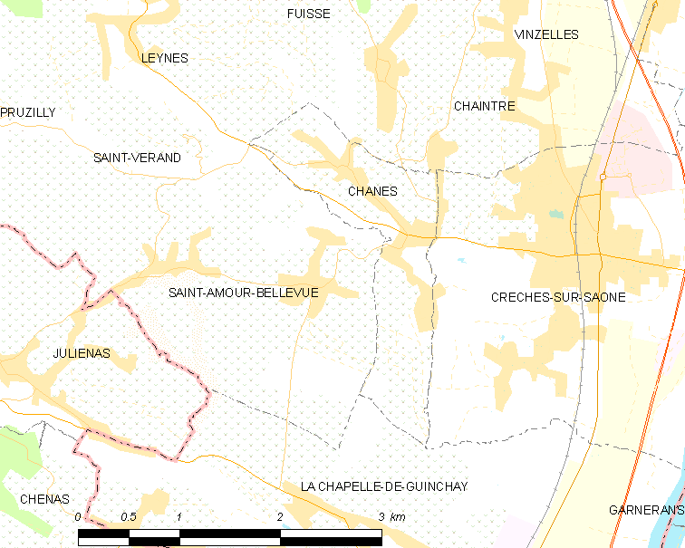 Map of French municipality